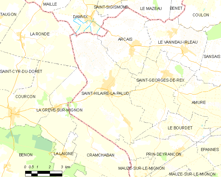 Map of French municipality Saint-Hilaire-la-Palud